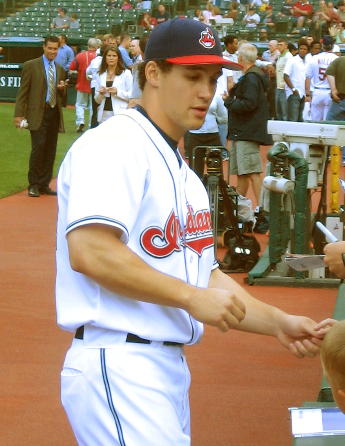 Description Grady Sizemore signing autographs DateJune 18, 2006SourceFile:Sizemore signing.JPGAuthorcropped and color balanced by KV5 (Talk • Phils)Permission (Reusing this file) CC-BY-SA-3.0 (and see original file) 00:09, 6 April 2009 . . Killervogel5 . . 694×896 (273 KB) Grady Sizemore signing autographs